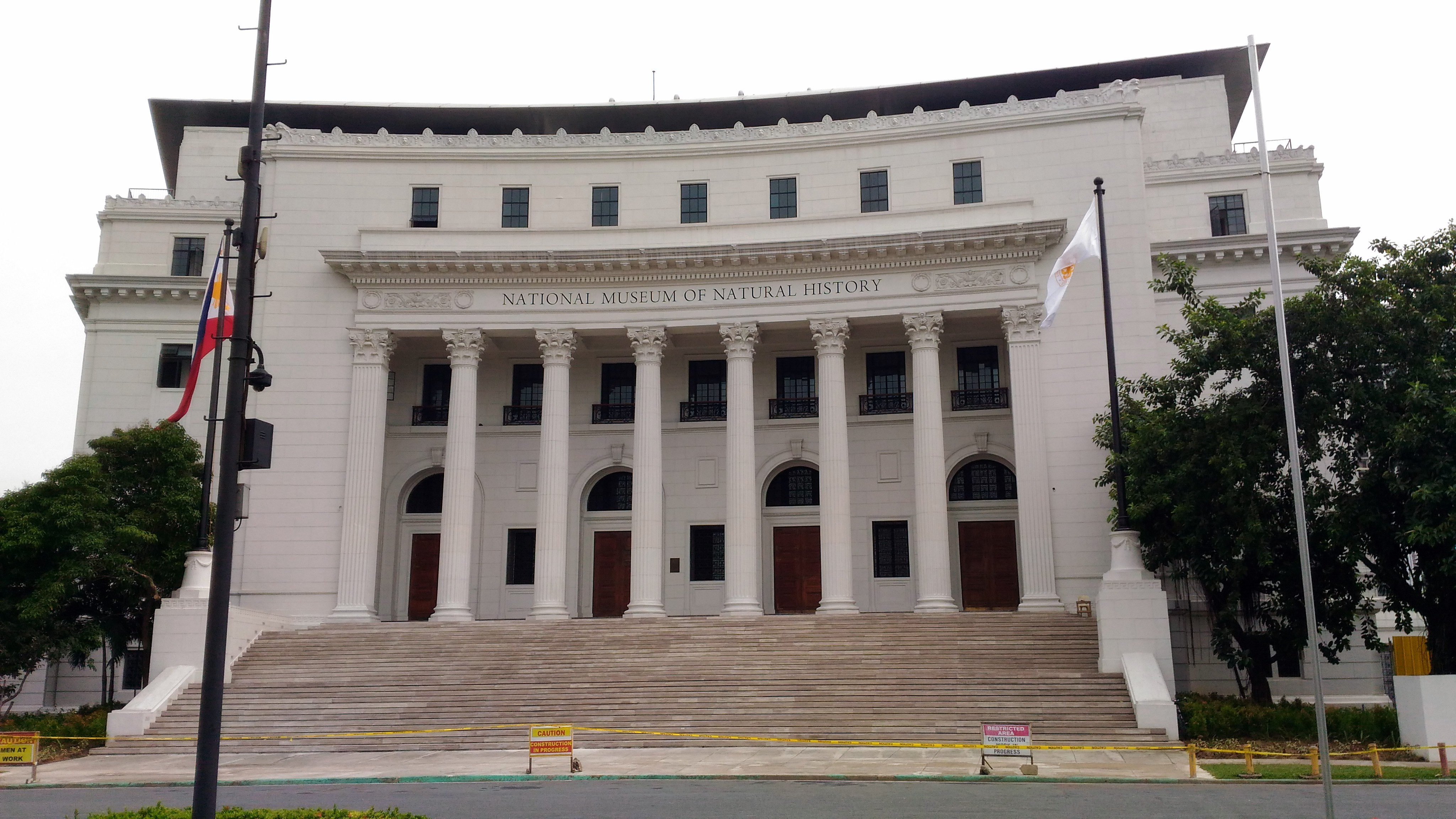 A front view of the facade of the National Museum of Natural History at the Luneta Park, Philippines.